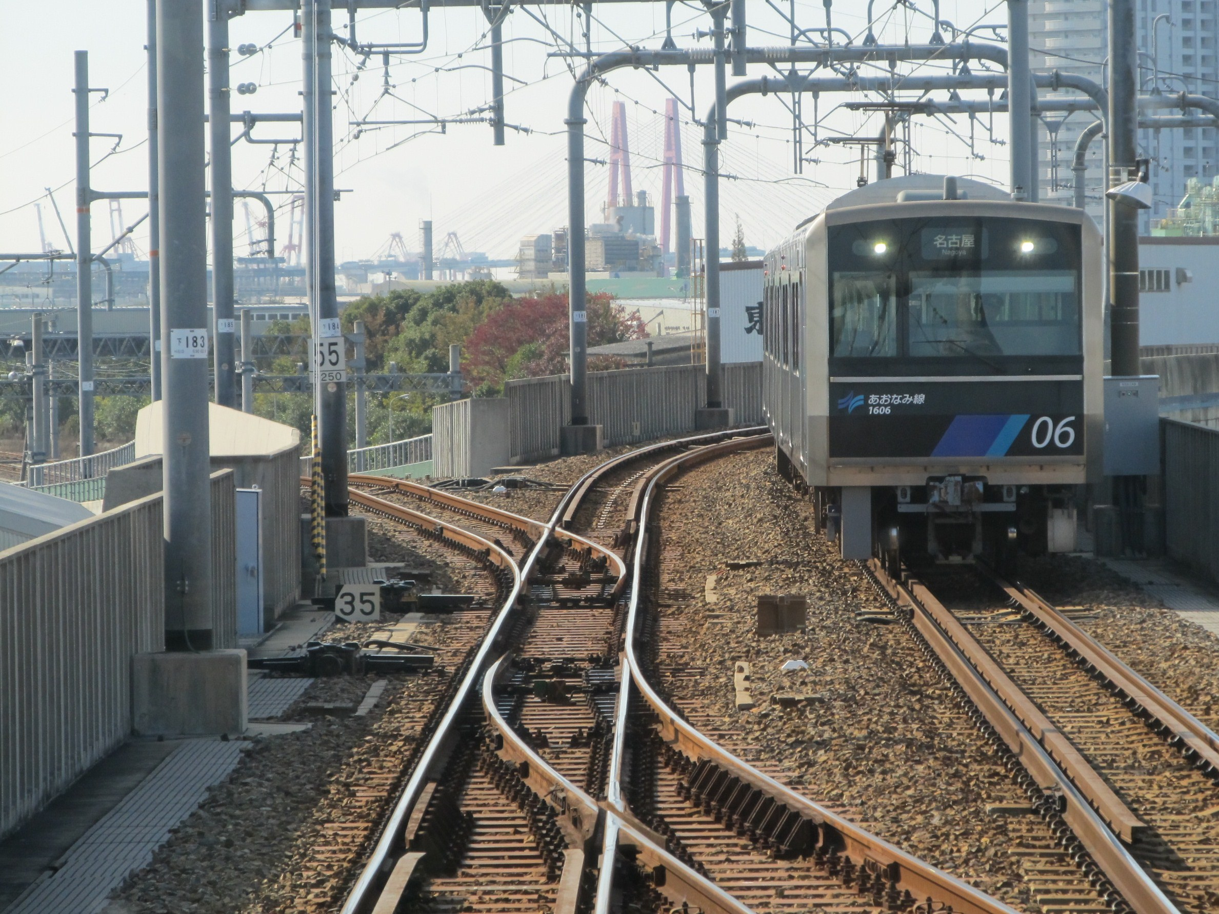 Nagoya Seaside Rapid Railway Aonami Line (Nishi-Nagoyakō Line) Shionagi Signal Box